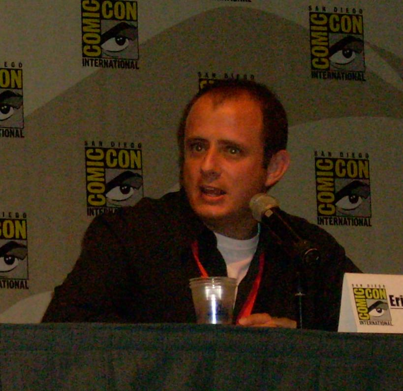 Screenwriter, film director & producer Eric Kripke – Comic-Con 2009 - "Supernatural" Panel - San Diego - July 26, 2009.